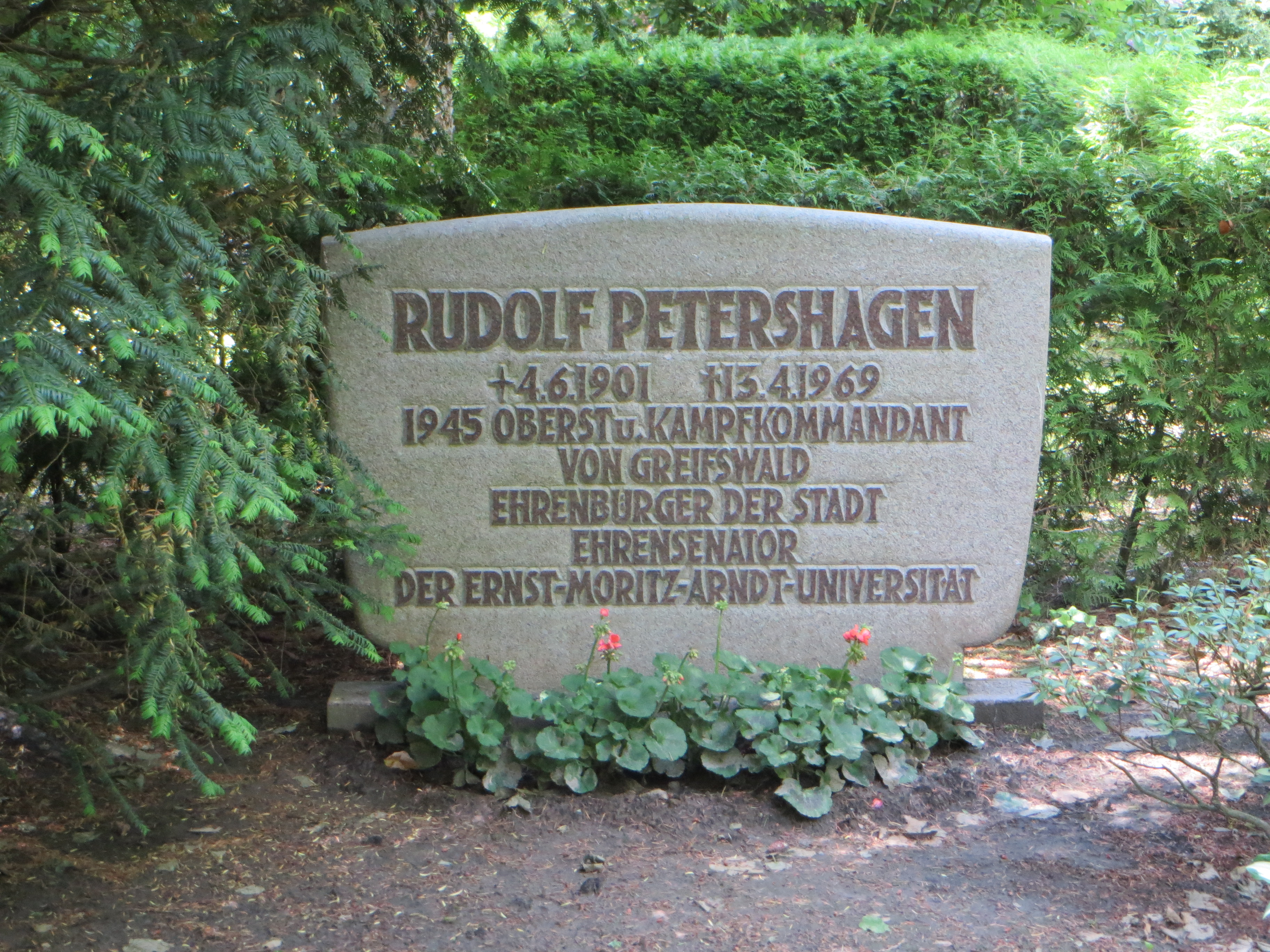 Neuer Friedhof in Greifswald